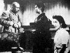 From rjght: Mitusuko Miura, Haruko Sugimura and Eitaro Ozawa in 1946 Japanese movie Morning for the Osone Family